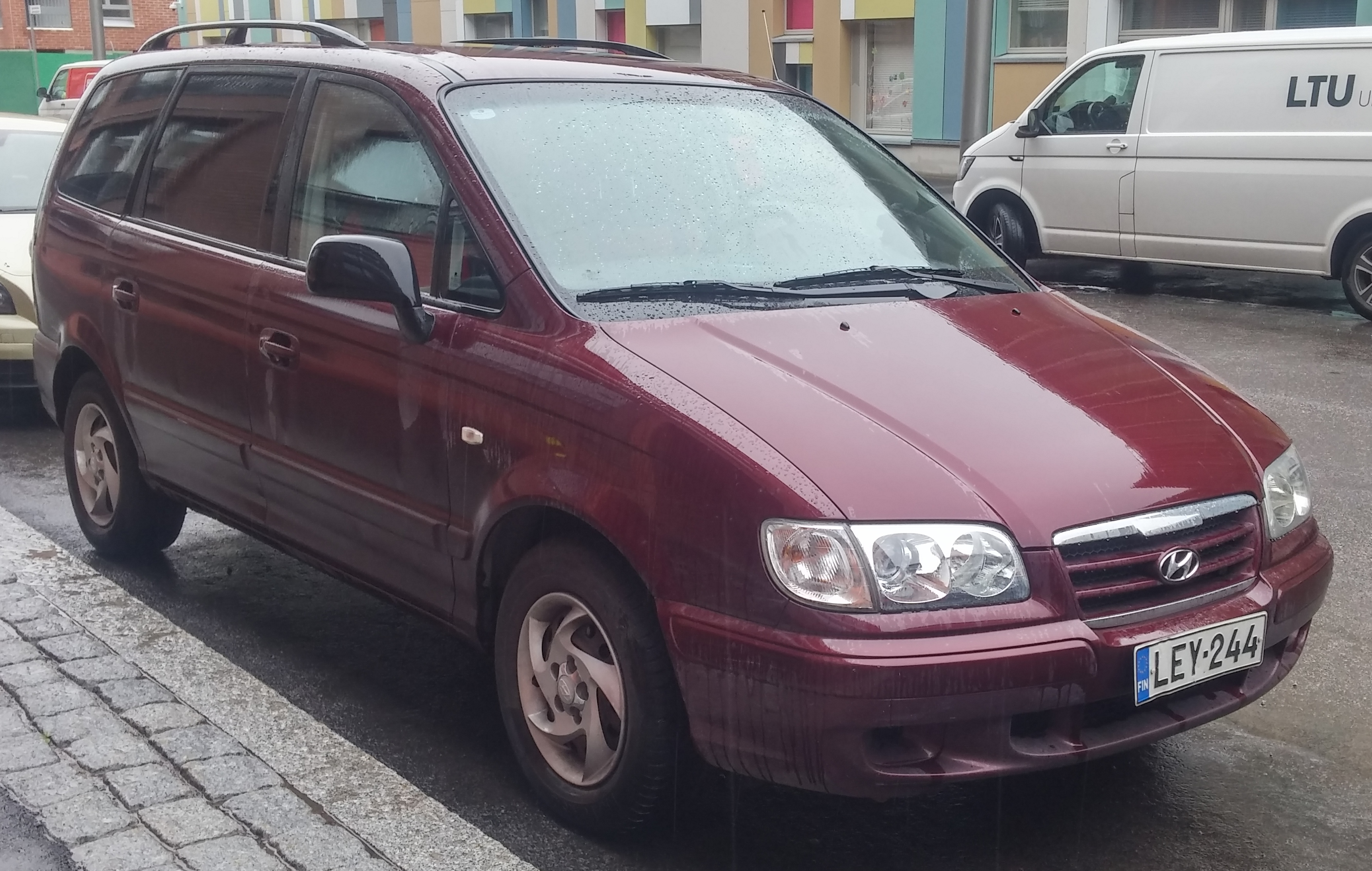 2007 Hyundai Trajet